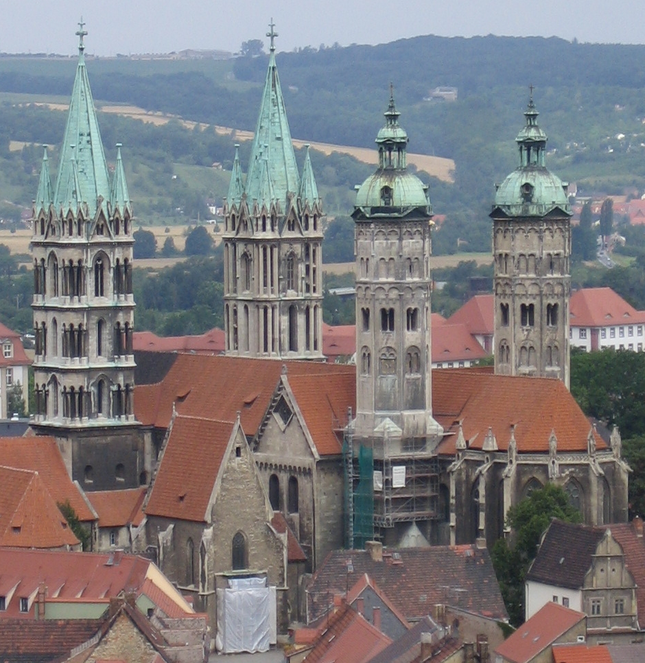 Naumburg Cathedral in Naumburg, Germany.